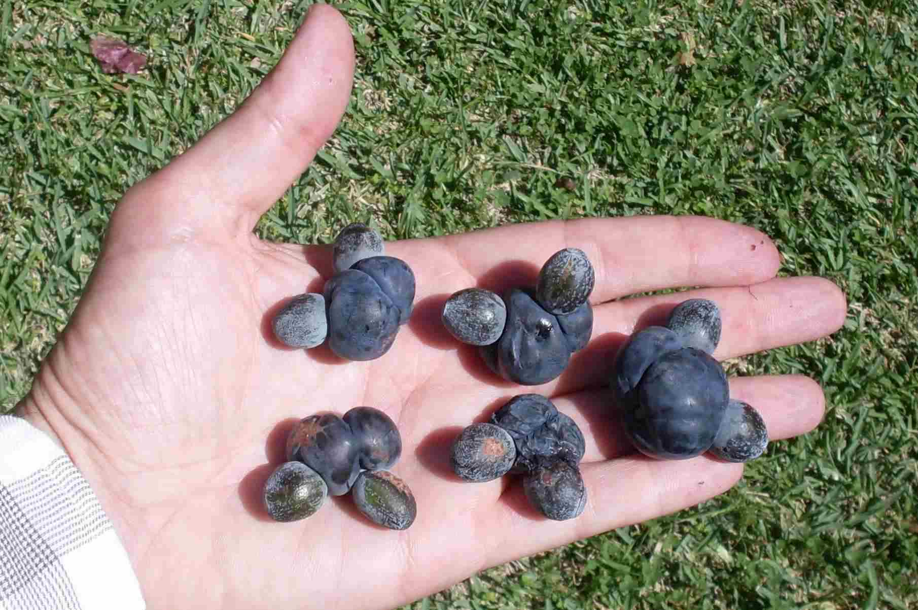 Podocarpus elatus. 'Naked' seeds on fleshy seed stalks (receptacles). Unusual example of two receptacles joined together. Baldry Street, Chatswood, hand of Peter Woodard